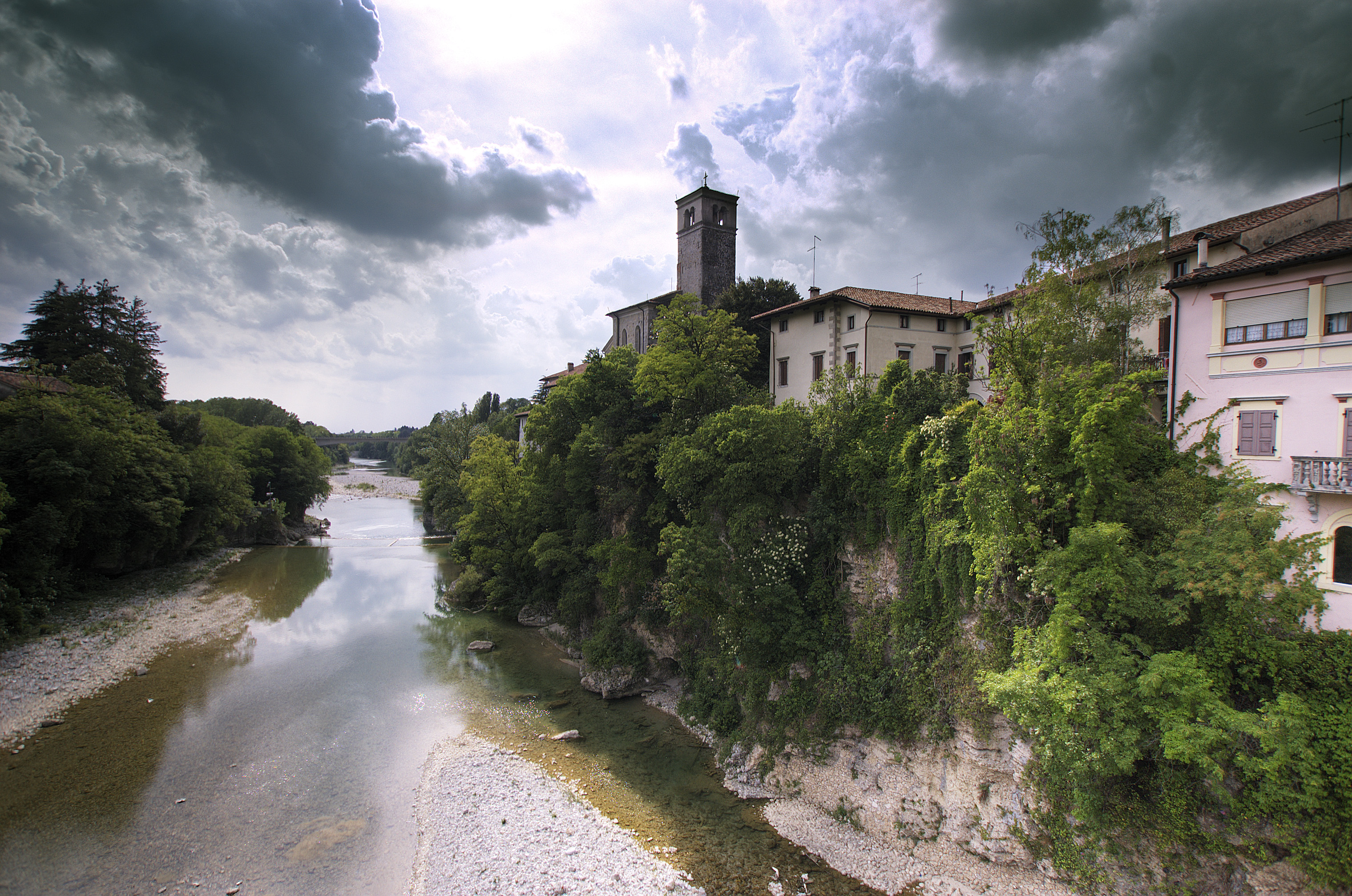 A view from the Devil's Bridge in Cividale del Friuli